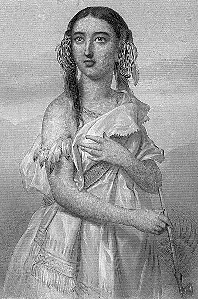 Pocahontas